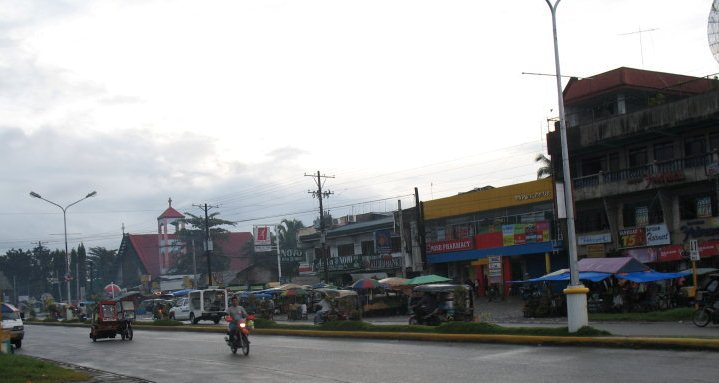 city center of Bayugan.